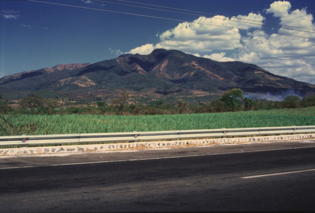 Guazapa volcano is seen here from the west, 3 km north of the town of Guazapa. This eroded stratovolcano is of Pleistocene age and is one of the largest volcanoes of the interior valley of El Salvador. Deep canyons dissect the volcano, but relatively young pyroclastic cones and lava flows are found around its base.